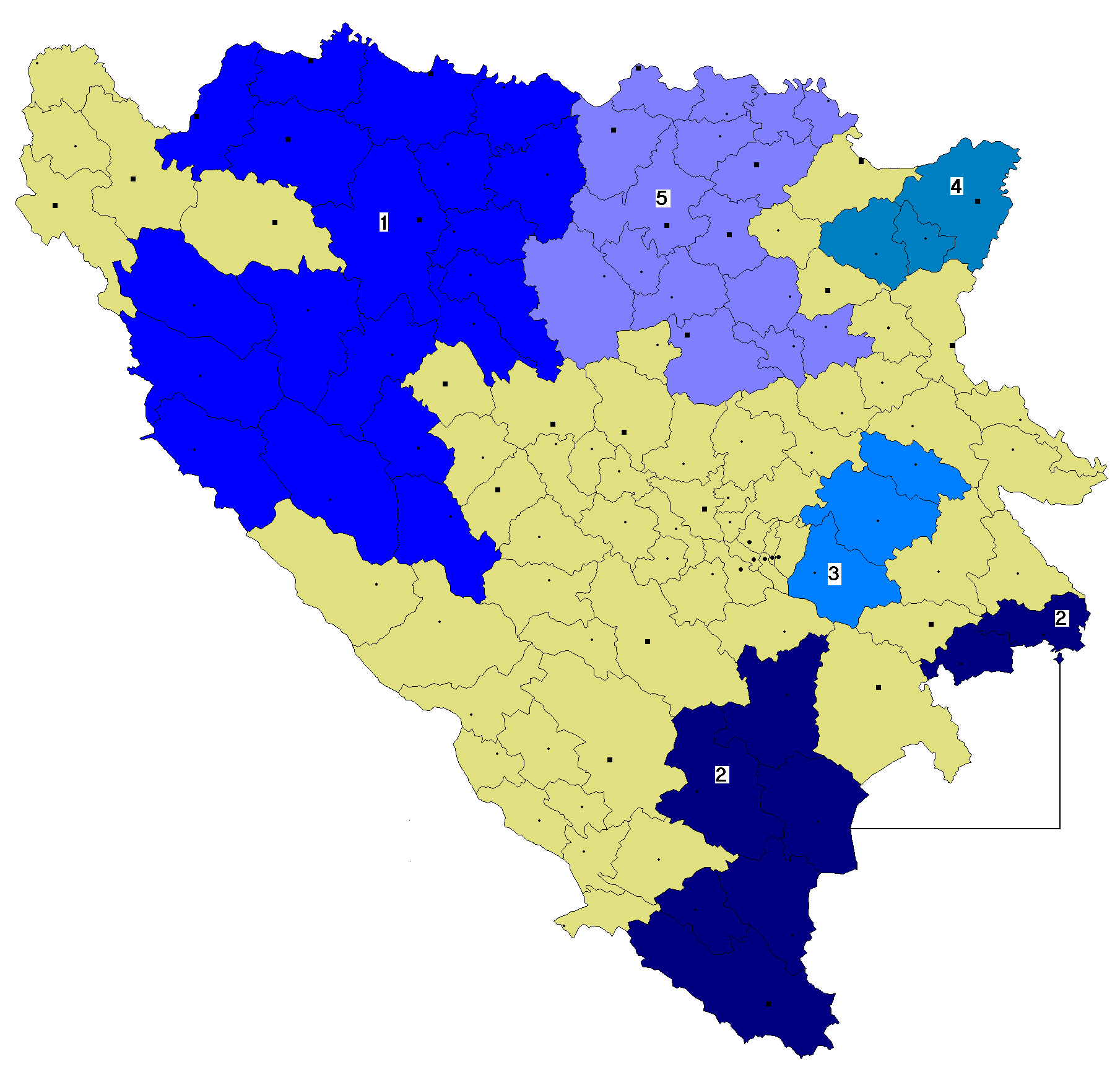 Serbian Autonomous Regions in Bosnia and Herzegovina (autumn 1991).